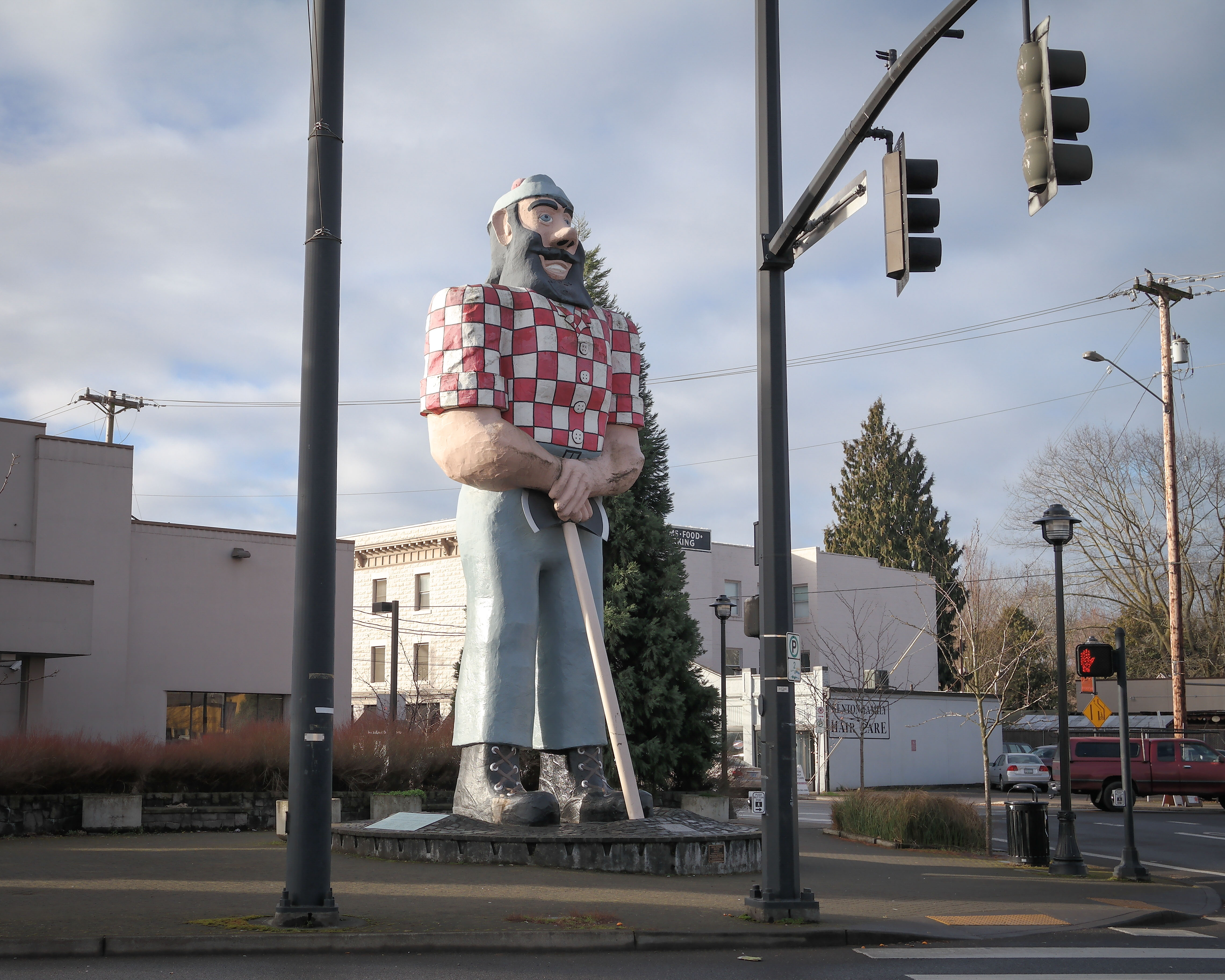 The Paul Bunyan Statue in Portland's Kenton Commercial Historic District